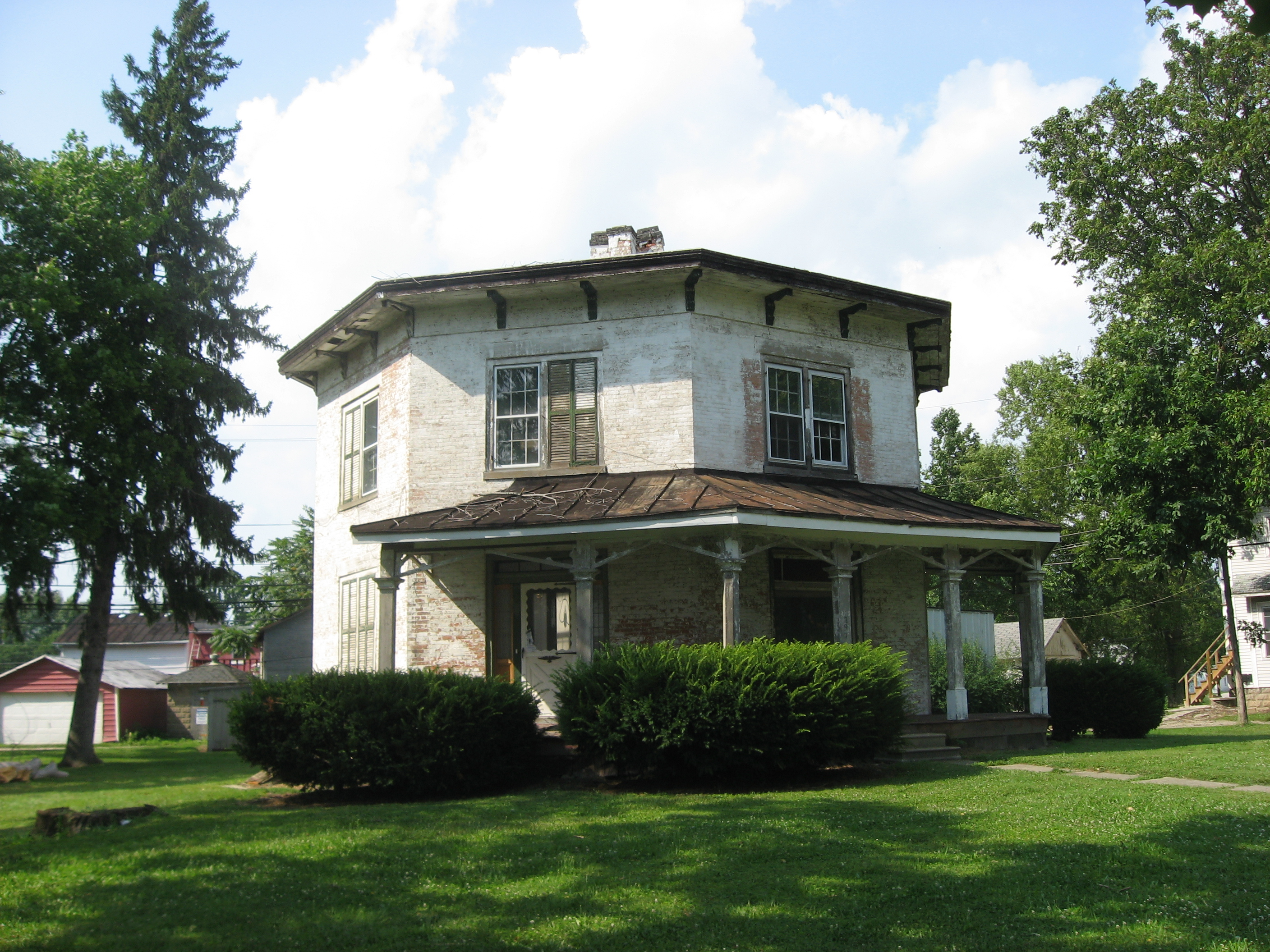 Front of The Octagon, located at 297 E. Perry Street (State Routes 18 and 101) on the campus of Heidelberg University in Tiffin, Ohio, United States. Built in 1852, it is listed on the National Register of Historic Places.